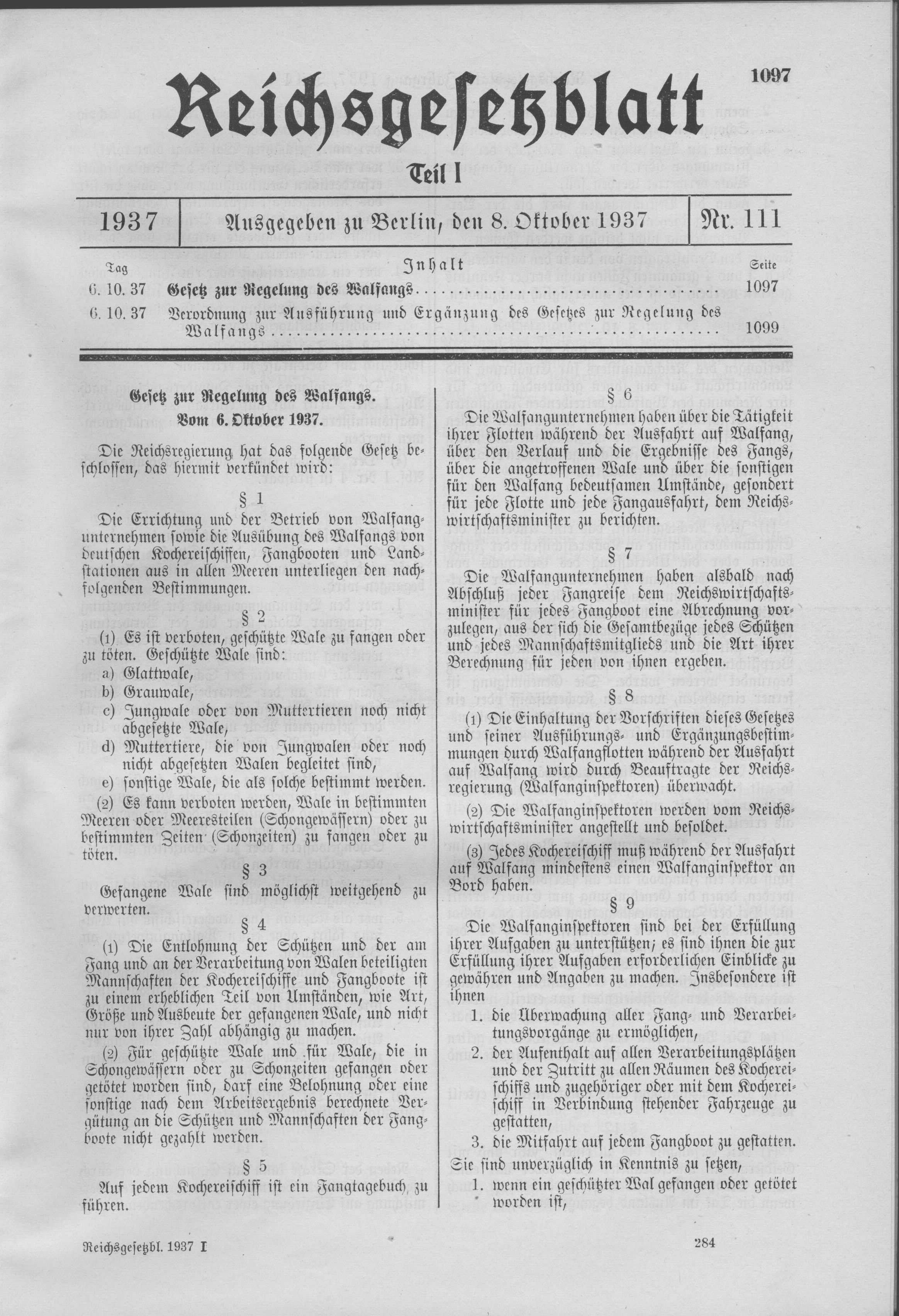 Scan from the Imperial Law Gazette of Germany, 1937, part 1